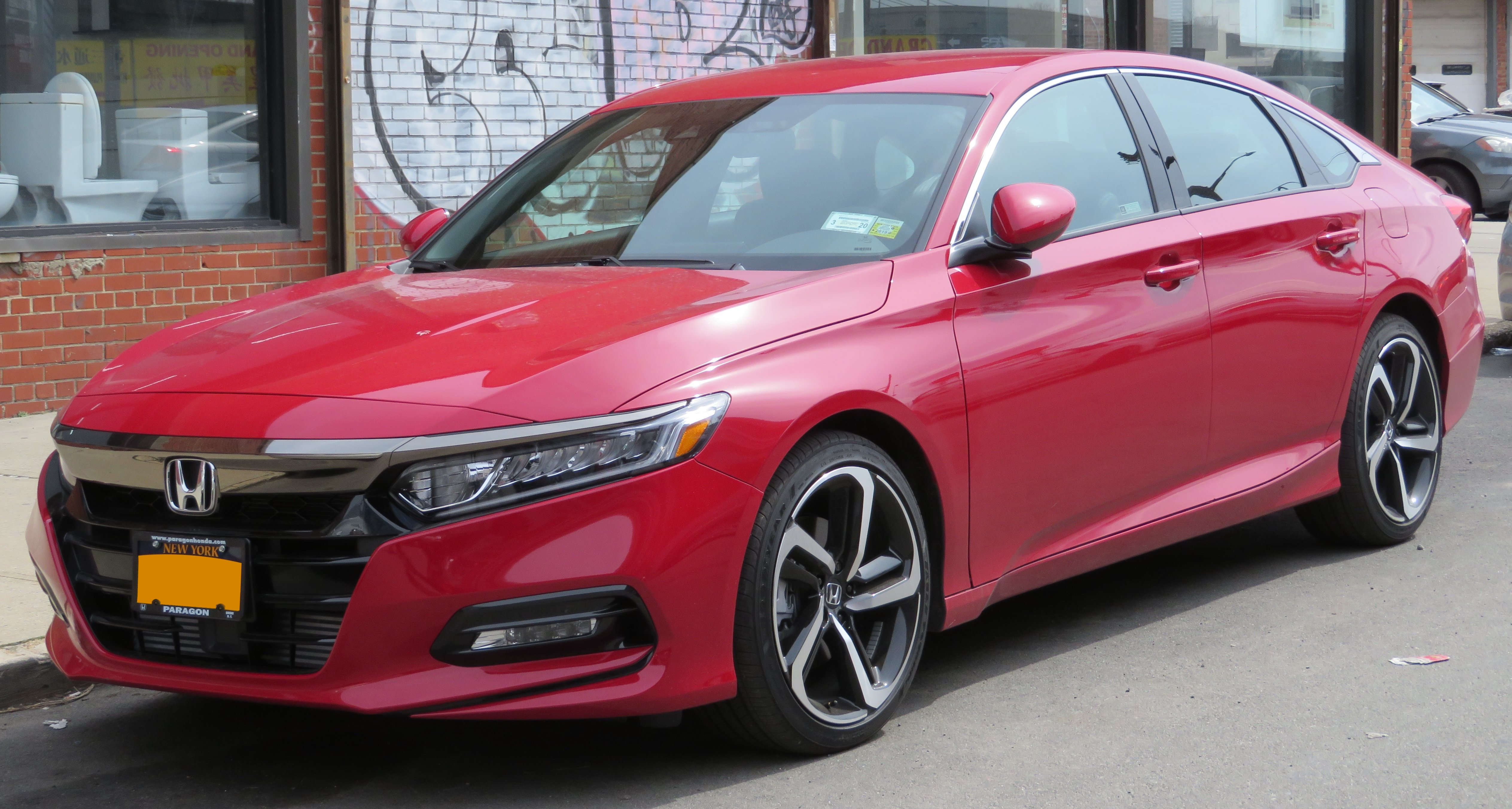 In Flushing(Queens), New York.